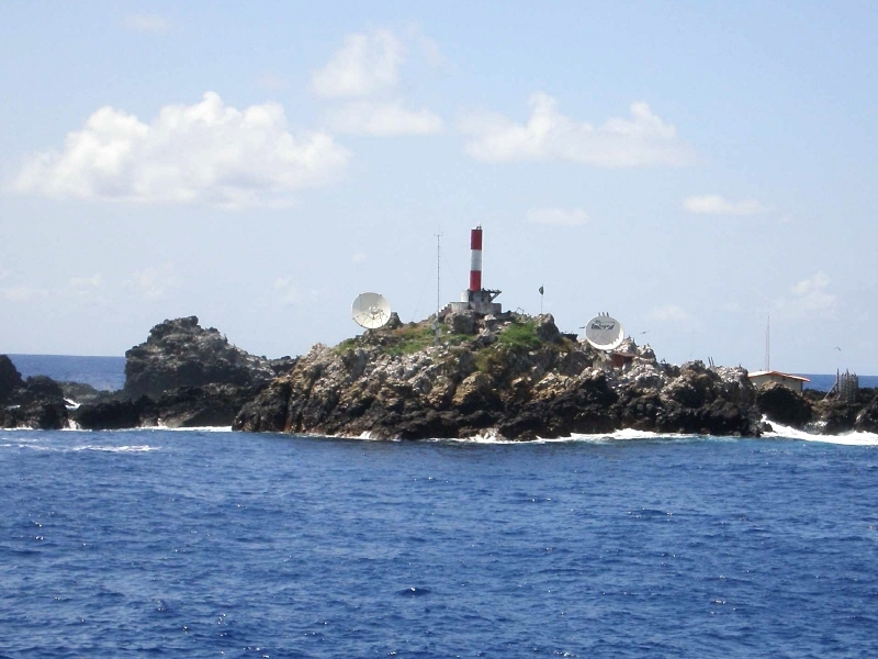 Saint Peter and Saint Paul rocks, Brazil